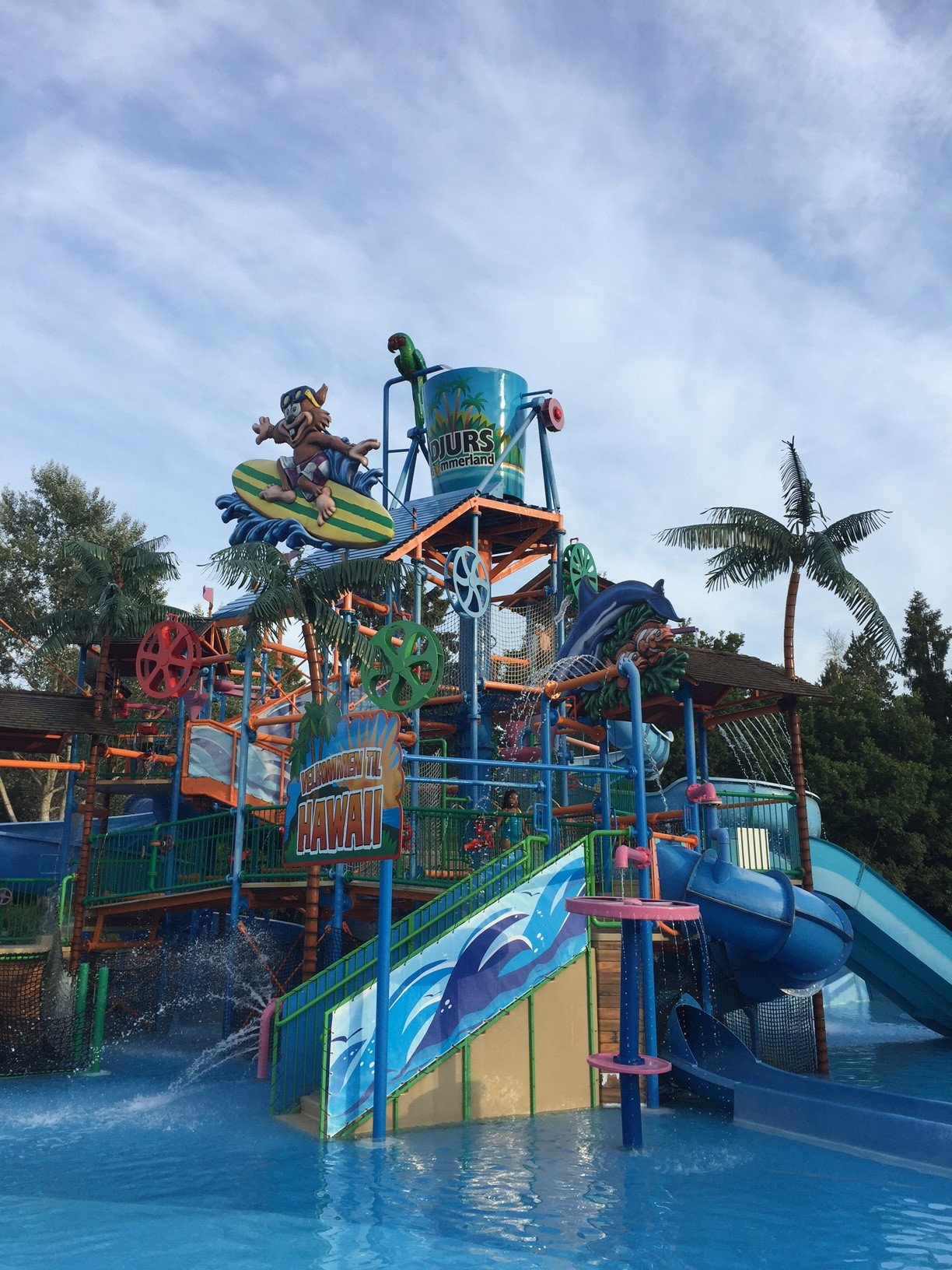 Djurs Sommarlands waterpark, Hawaii